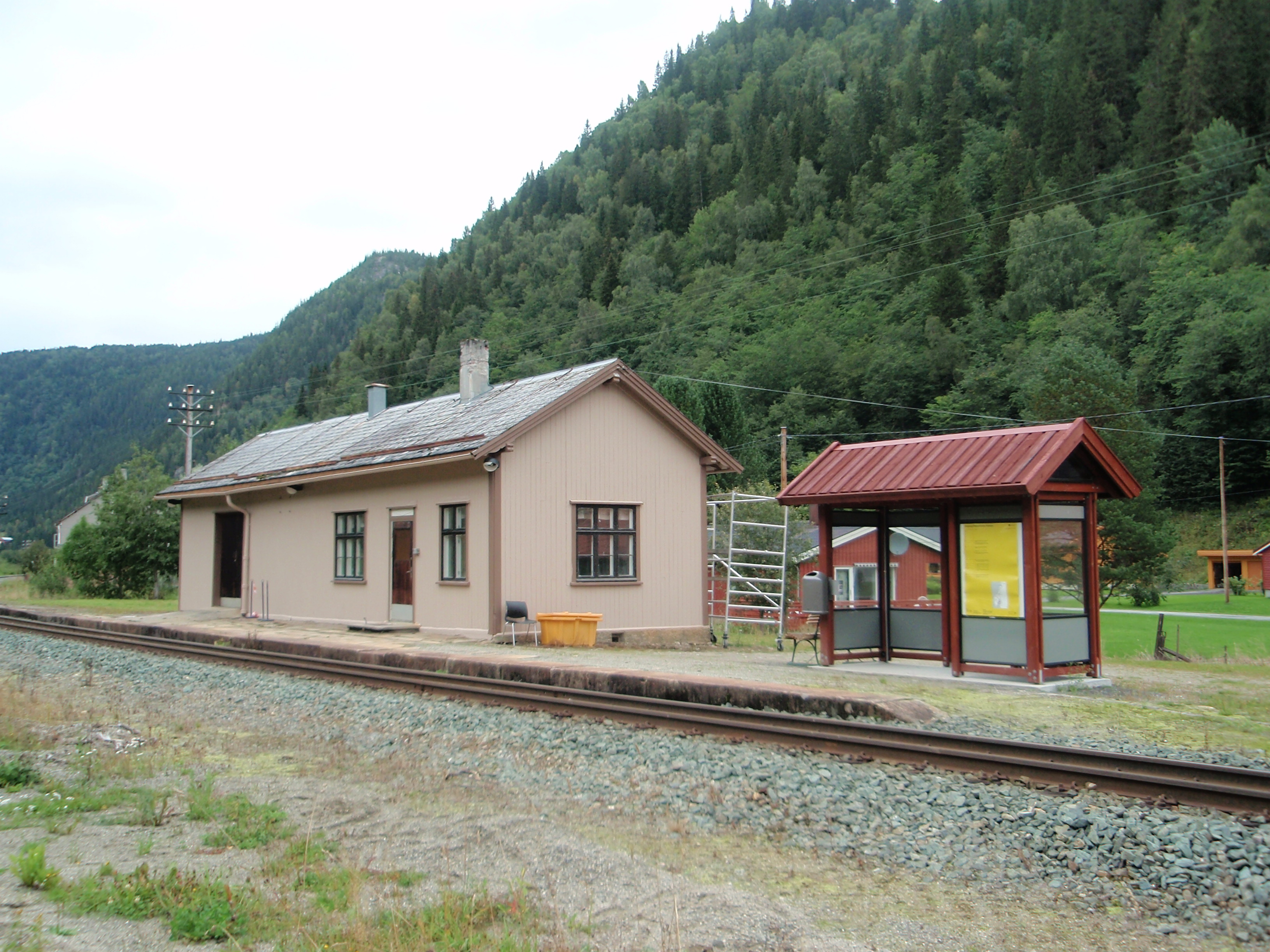 Kotsøy Station of the Røros Line at Kotsøy in Sør-Trøndelag.